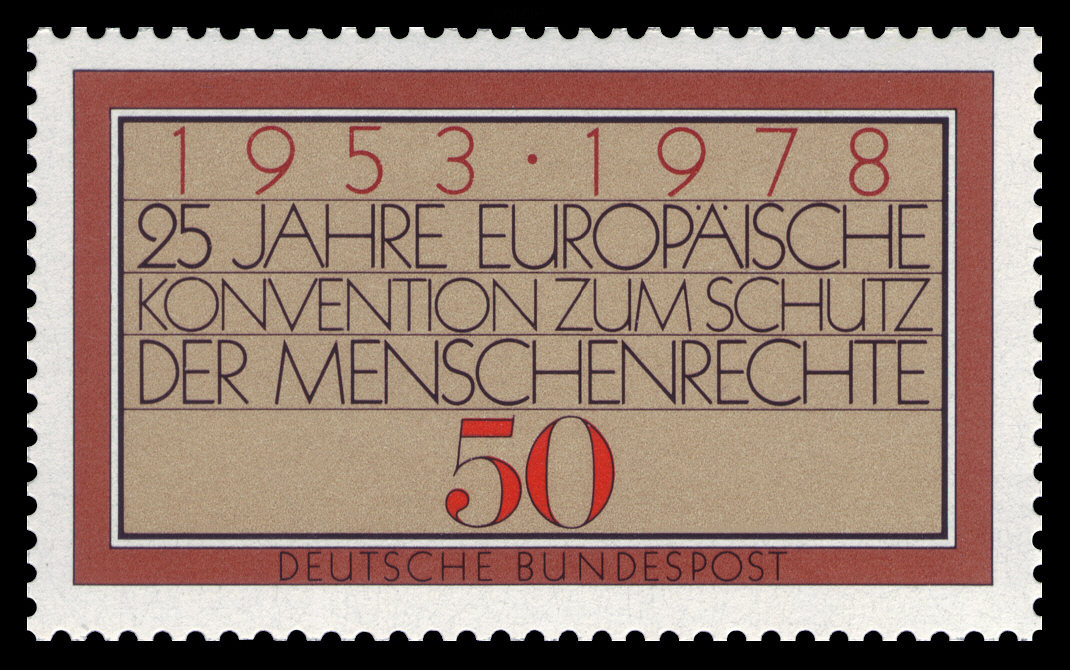 25 years of European Convention on Human Rights Graphic designer: Steiner Ausgabepreis: 50 Pfennig First Day of Issue / Erstausgabetag: 17. August 1978 Michel-Katalog-Nr: 979